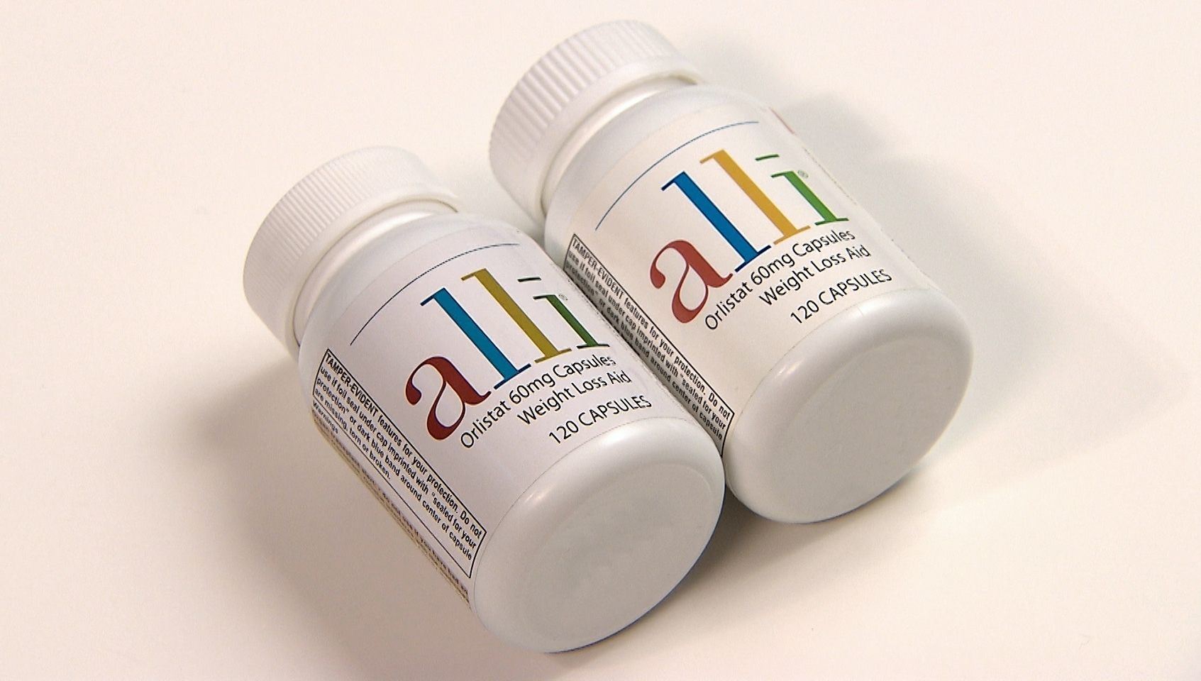 Authentic and counterfeit packaging of Alli prepared for screening by CD-3. CD-3, a small portable device invented by FDA scientists, is being deployed to screen for counterfeit and sub-standard malaria drugs in Sub-Saharan Africa and Southeast Asia. Using wavelengths of light, CD-3 reveals differences between authentic and counterfeit drugs that look the same to the naked eye. To learn more, read this Consumer Update article and watch the video: FDA Invention Fights Counterfeit Malaria Drugs